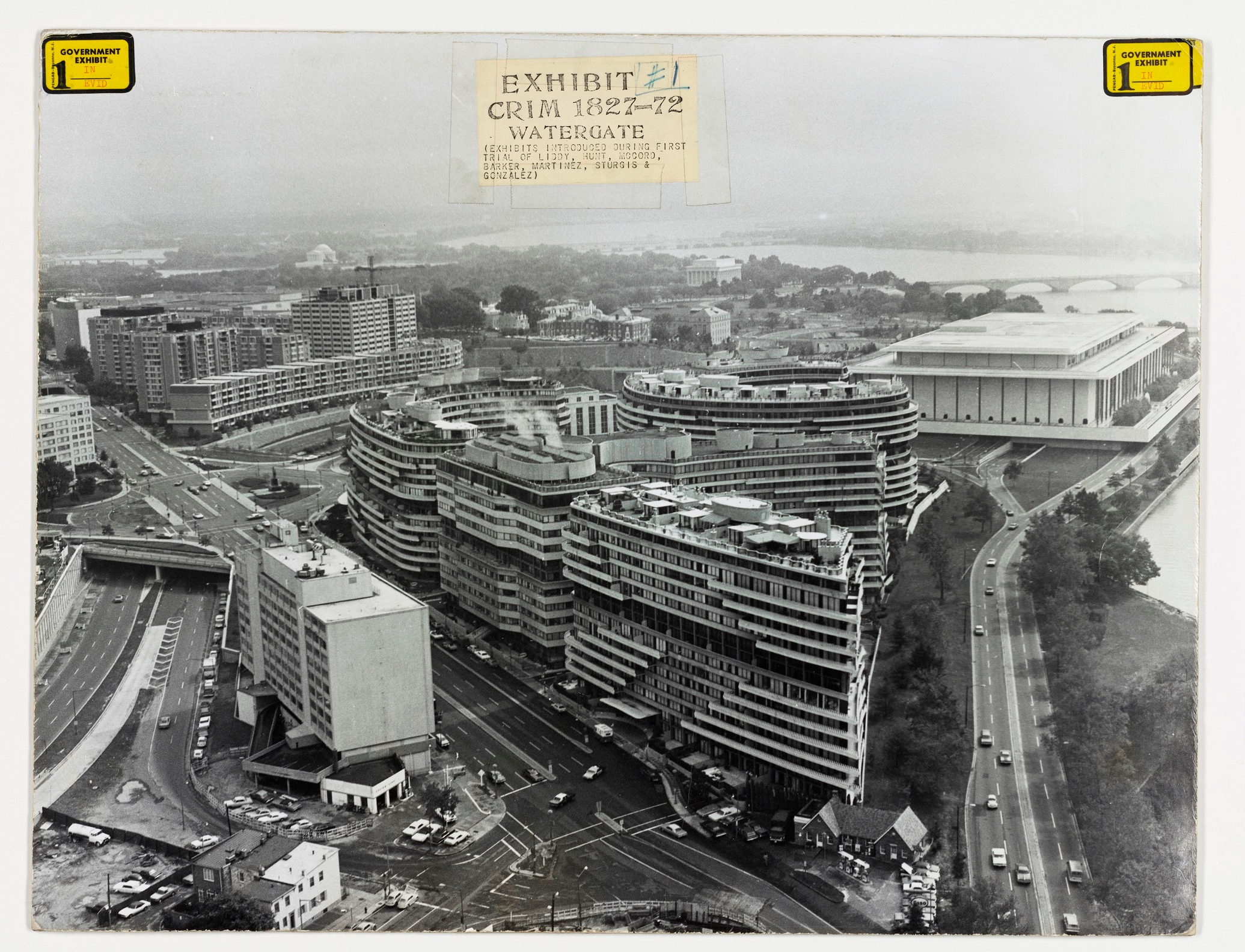 Record Group 21: Records of District Courts of the United States, 1685 – 1991; NARA, College Park, MD. Gerald R. Ford Library & Museum "The Watergate Files" Exhibit Government Exhibit 1: The Watergate Complex